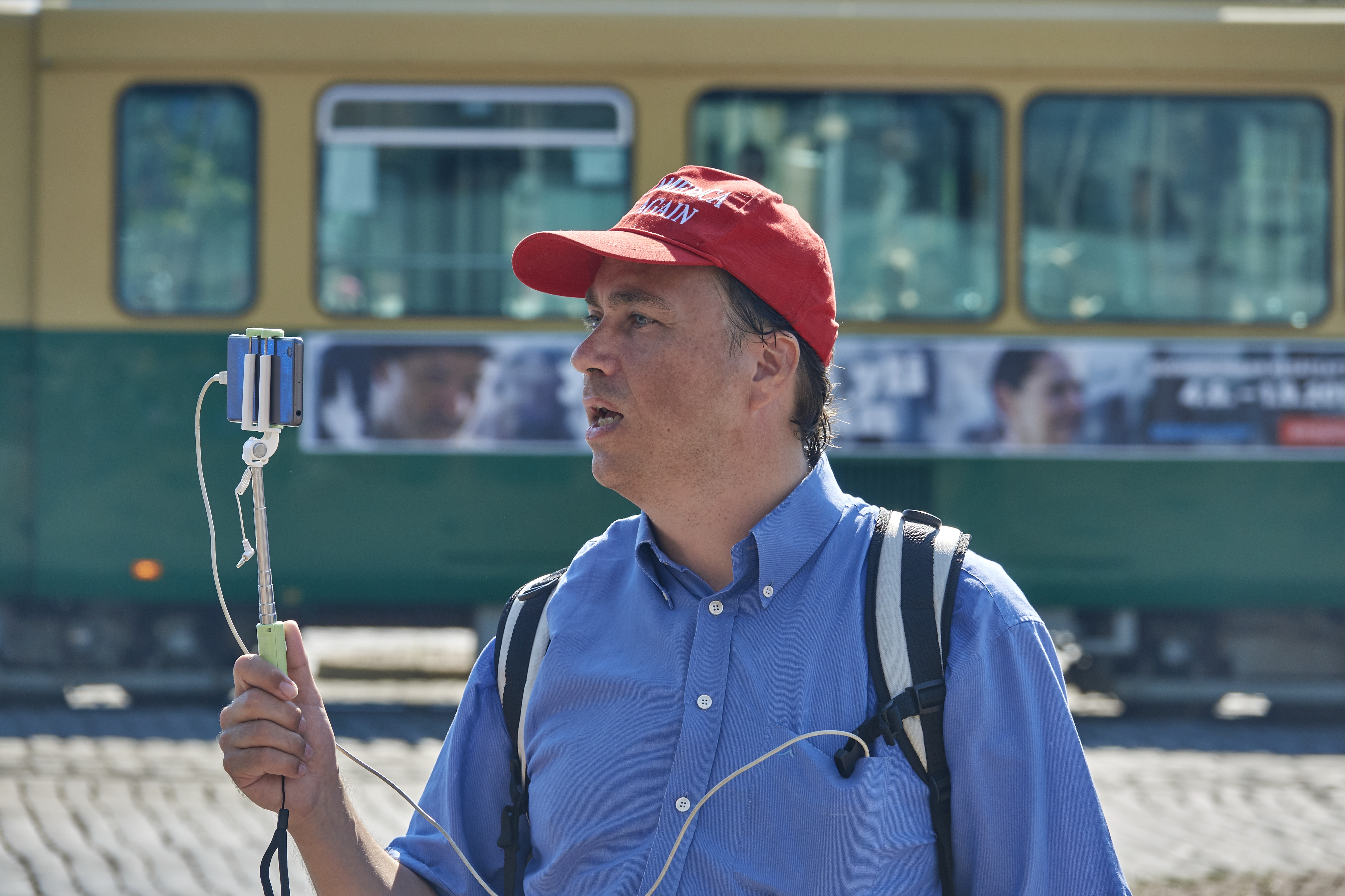 Marco De Wit, the leader of Finnish Nation First (Suomen Kansa Ensin), in Helsinki 2018 Summit.